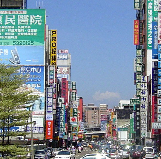 a Hsinchu street. This picture was taken in 2004